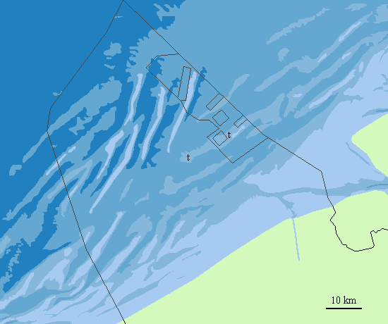 The Thorntonbank in front of the Belgium and Dutch coast, inside the area for windmillparks, inside the Belgian territorial waters